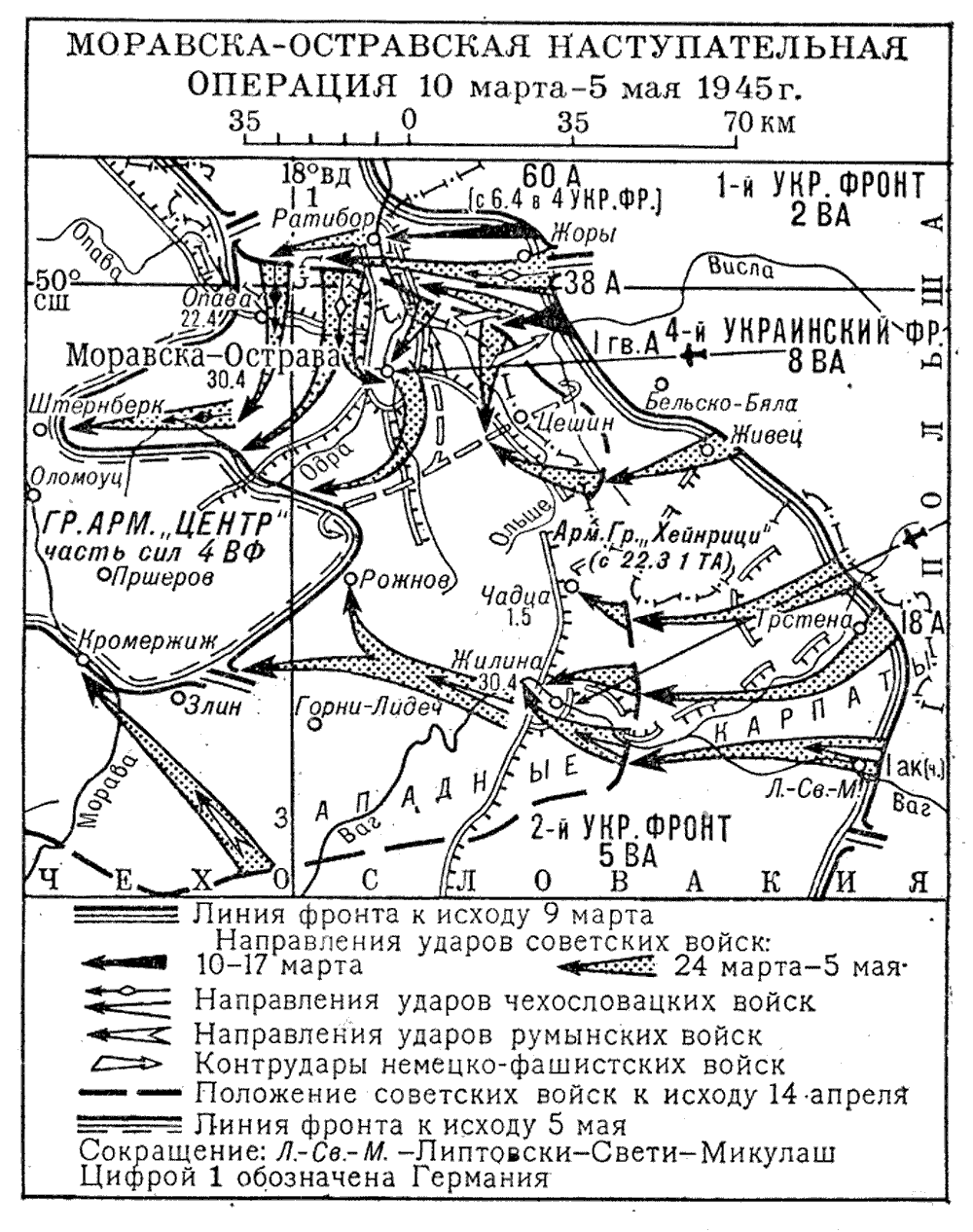 Soviet map of Ostrava Operations